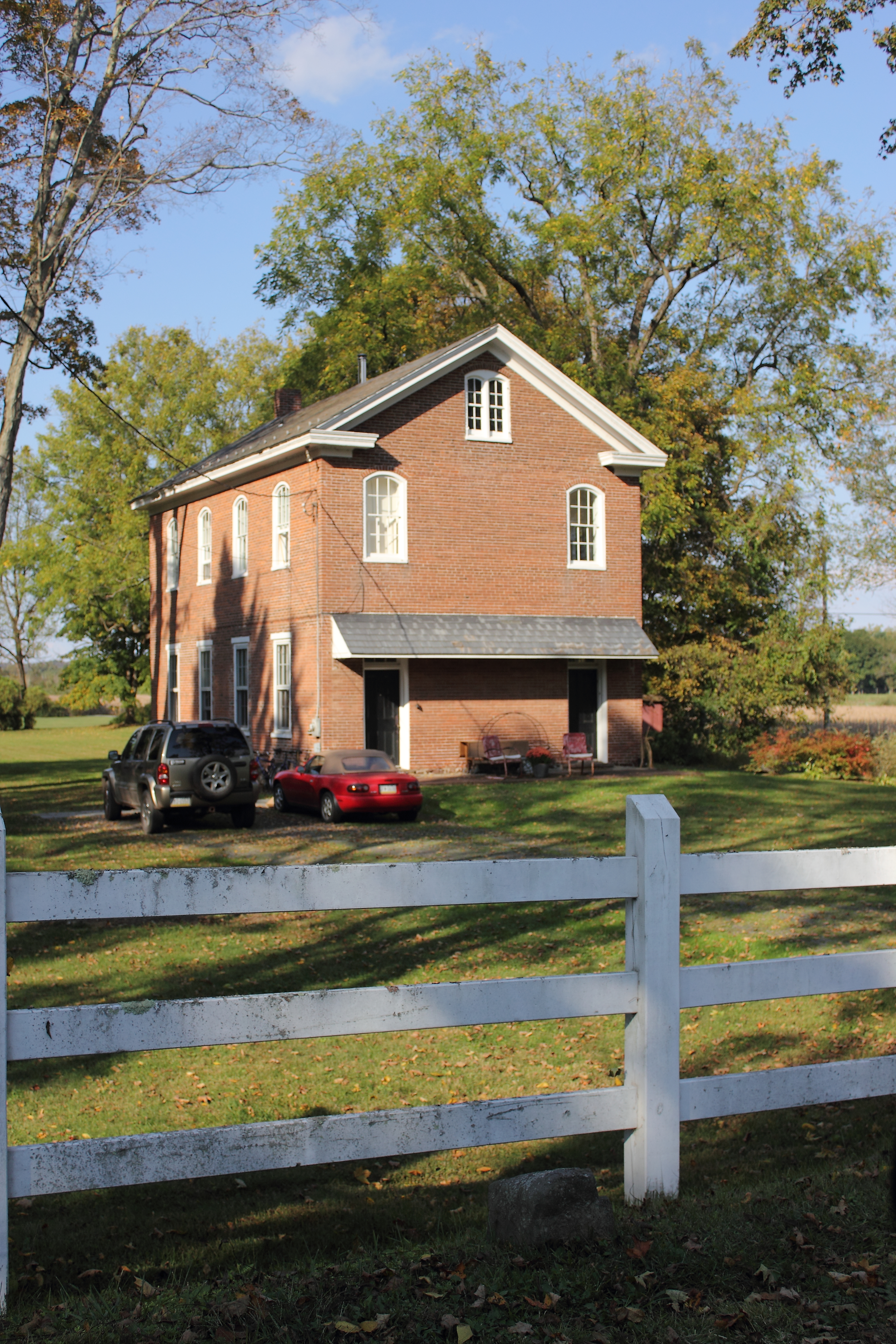 Uhlerstown Historic District